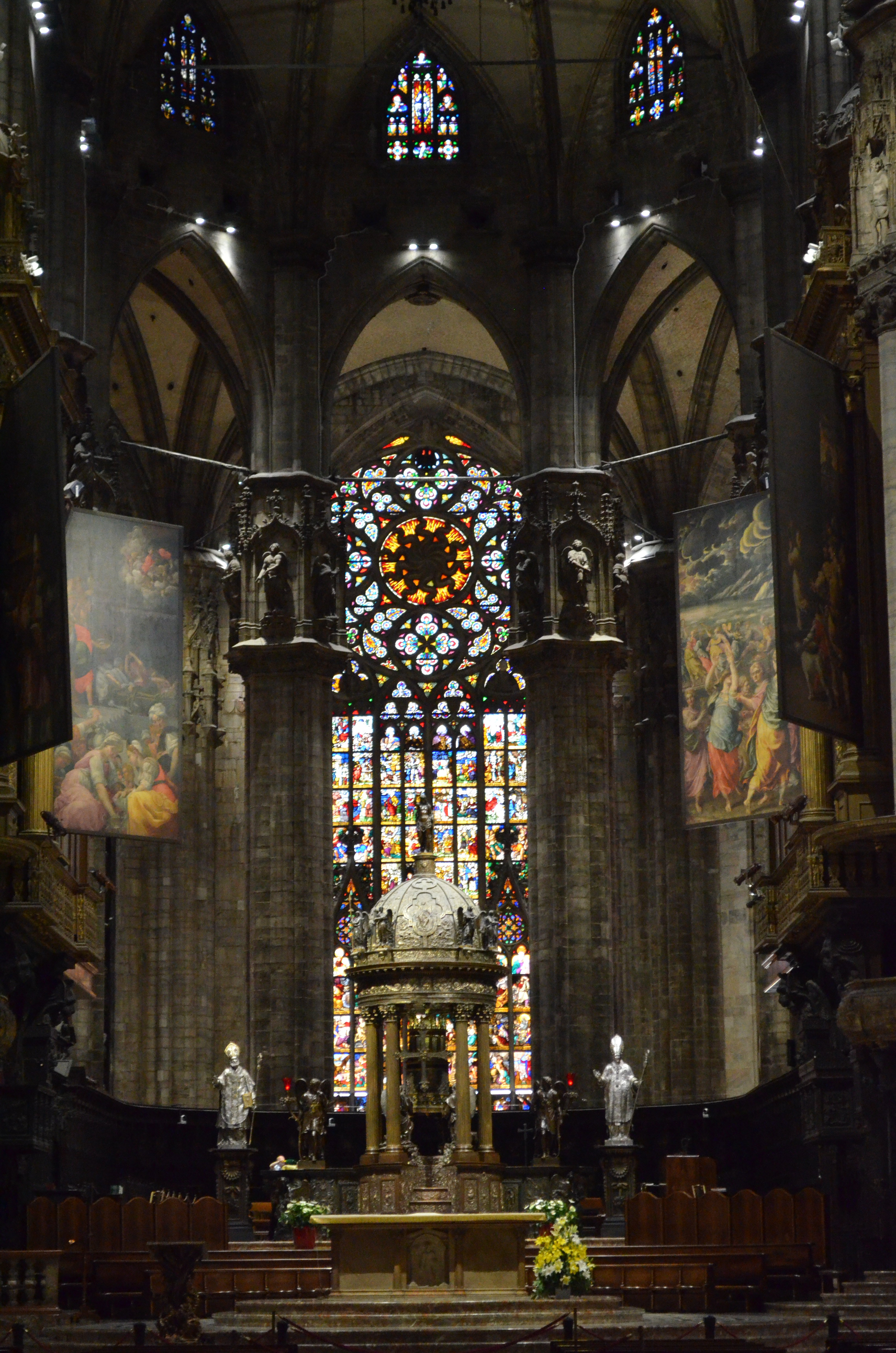 Interior of the Duomo (Milan)